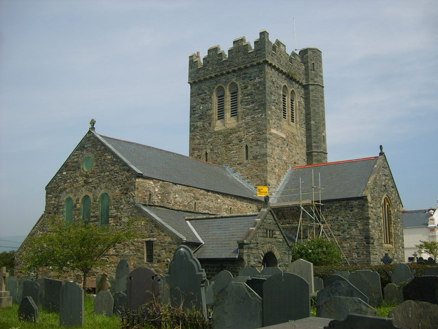 St Cadfan's Church, Tywyn The Parish Church, complete with scaffolding as roof repairwork was underway.